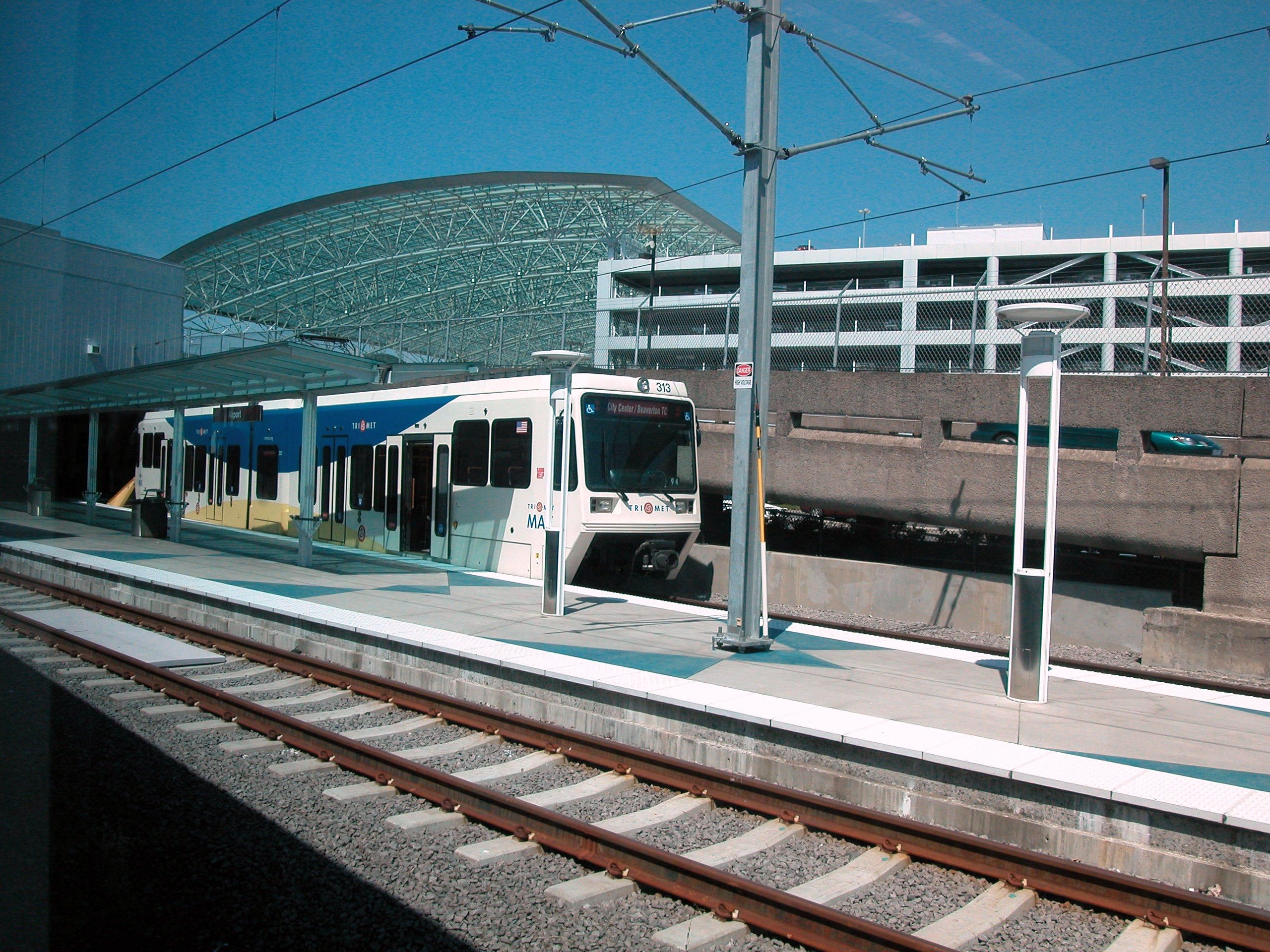 Portland Max - Airport Station